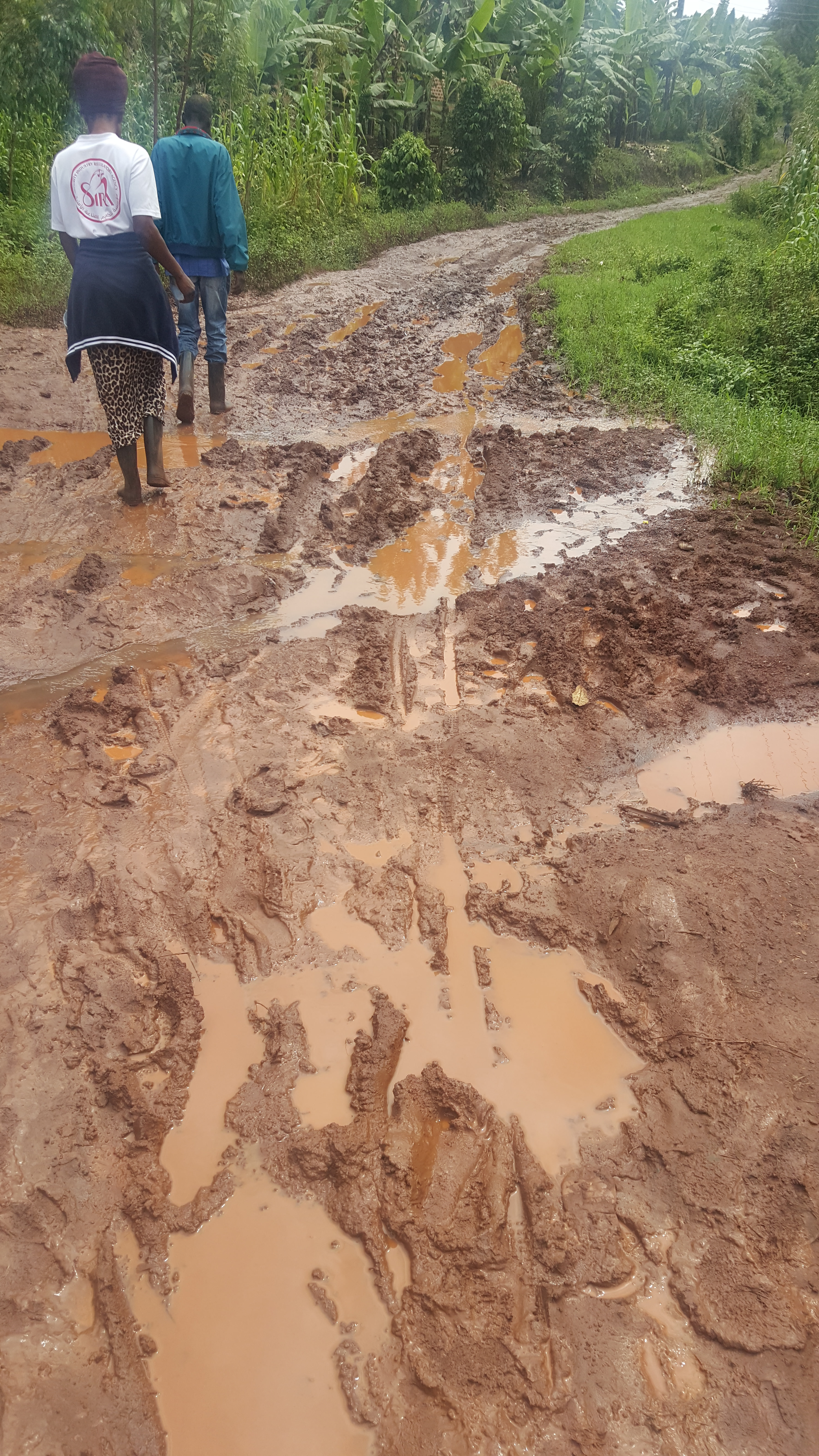 File represents footing of the local people from one village to another in Uganda This is an image with the theme "Africa on the Move or Transport" from: Uganda